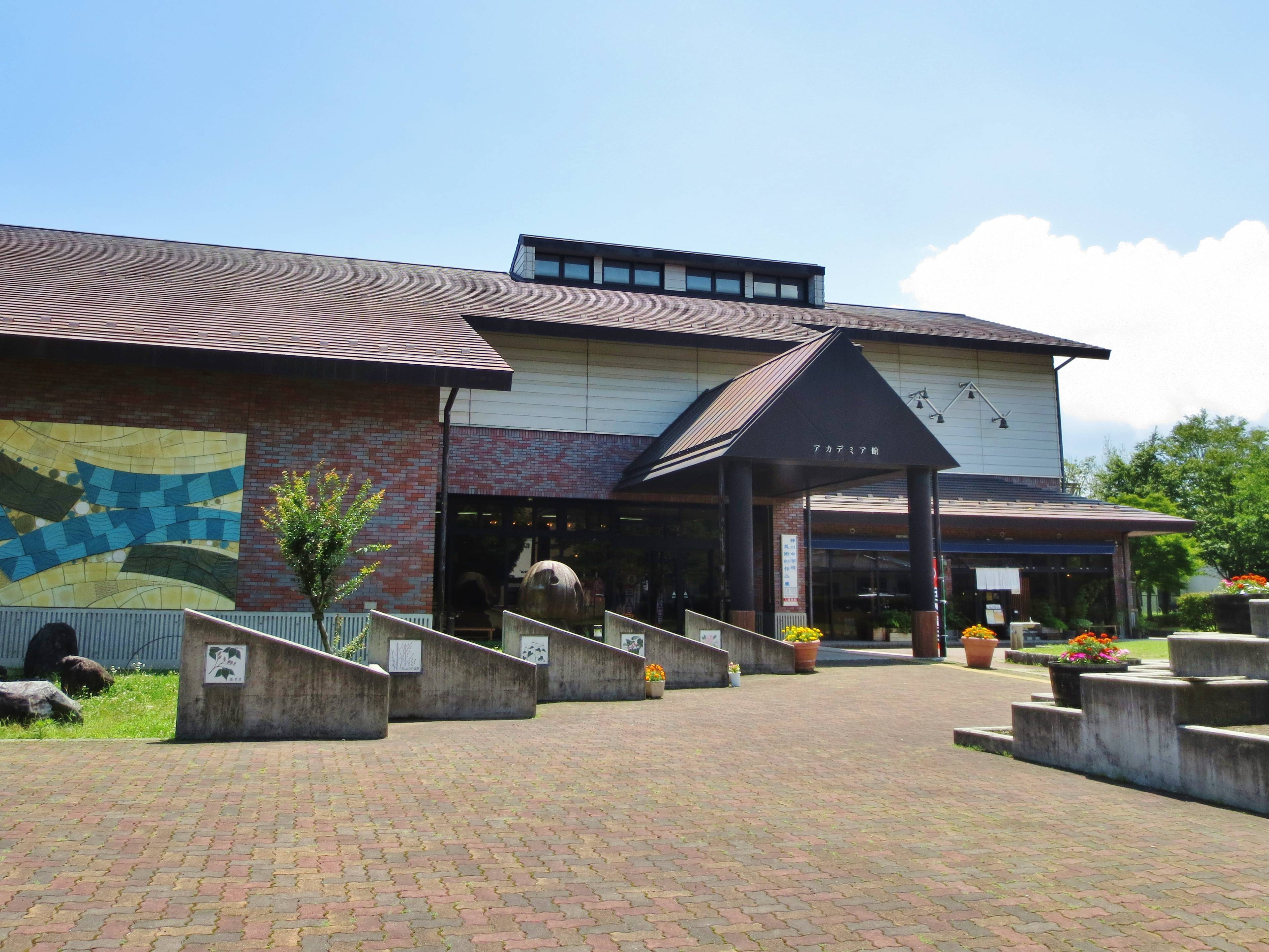 Azusagawa Akademia Hall.